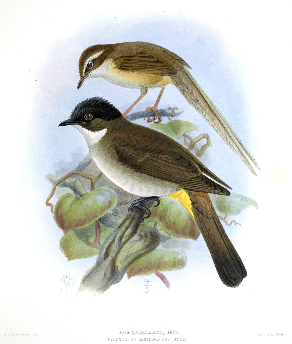 Suya superciliaris (= Prinia superciliaris) and Pycnonotus xanthorrhous